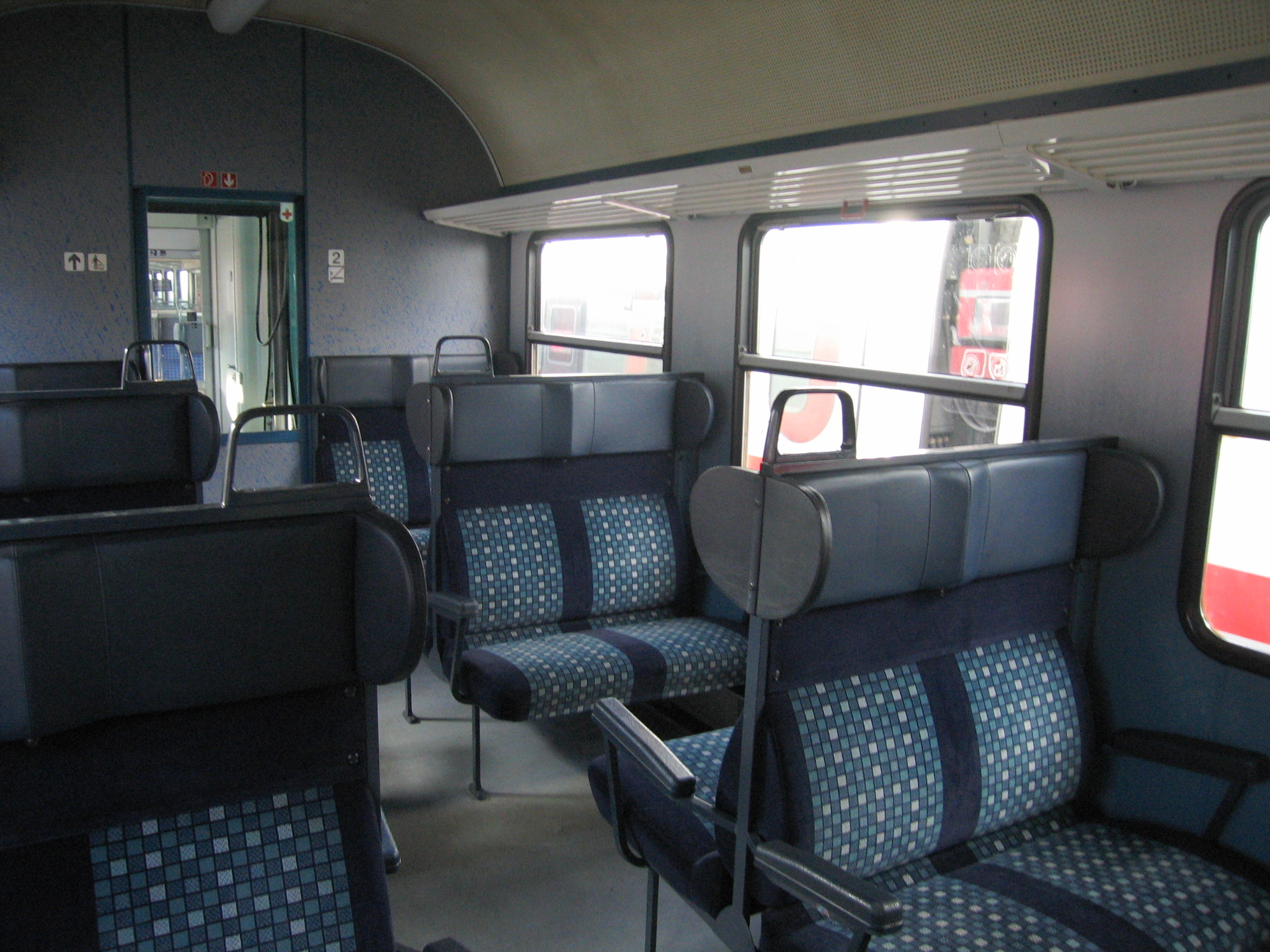 Interior of an n-type coach of german railways DB, Fervet design